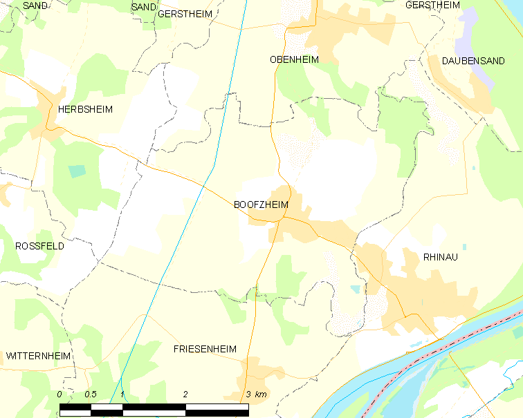 Map of French municipality